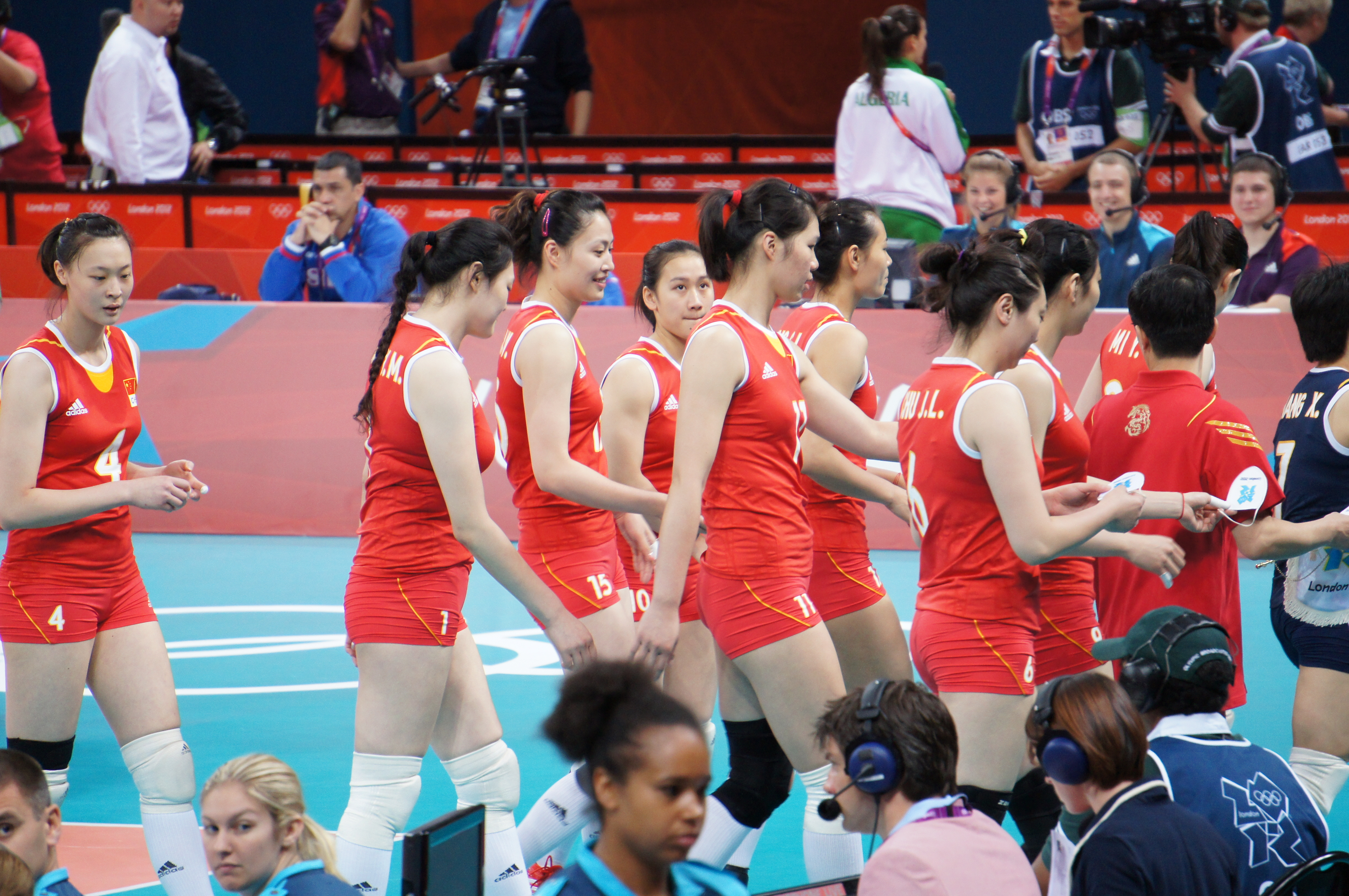 China national volleyball team at the 2012 Summer Olympics